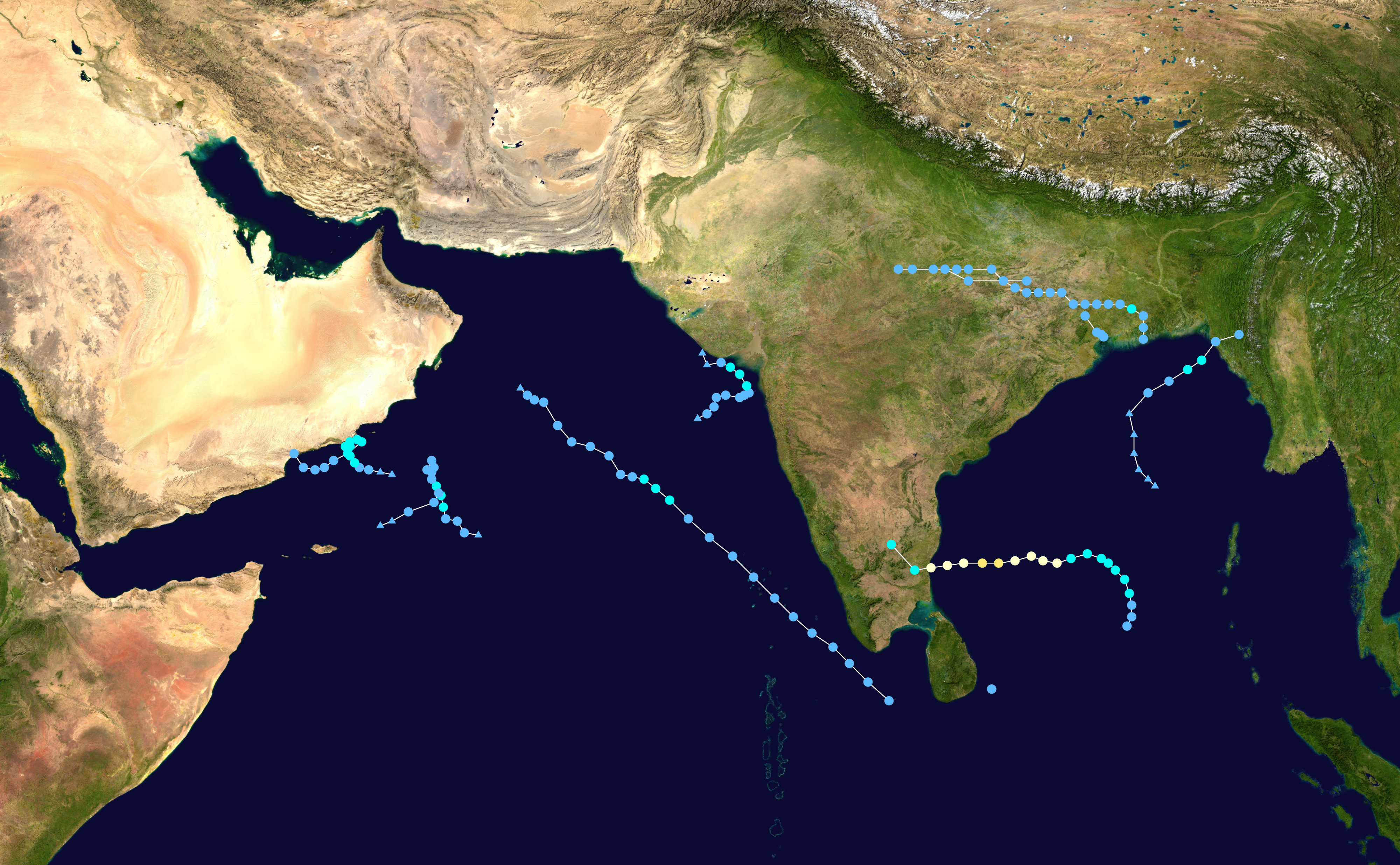 This map shows the tracks of all tropical cyclones in the 2011 North Indian Ocean cyclone season. The points show the location of each storm at 6-hour intervals. The colour represents the storm's maximum sustained wind speeds as classified in the Saffir-Simpson Hurricane Scale (see below), and the shape of the data points represent the type of the storm. Saffir–Simpson scale Tropical depression≤38 mph≤62 km/h Category 3111–129 mph178–208 km/h Tropical storm39–73 mph63–118 km/h Category 4130–156 mph209–251 km/h Category 174–95 mph119–153 km/h Category 5≥157 mph≥252 km/h Category 296–110 mph154–177 km/h Unknown Storm type Tropical cyclone Subtropical cyclone Extratropical cyclone / Remnant low / Tropical disturbance / Monsoon depression